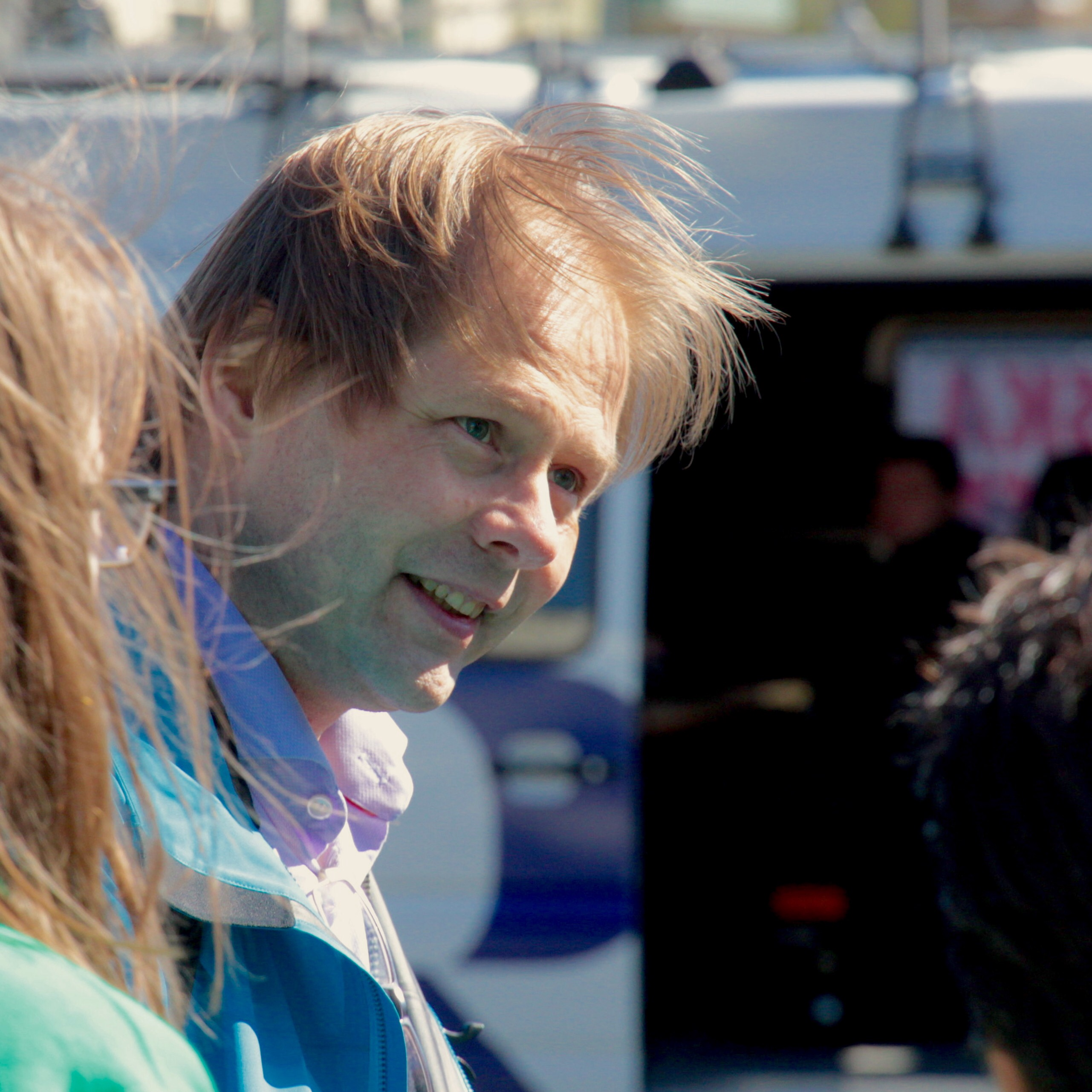 Anders Lindberg at Socialdemocrats 1 Maj event Folketspark, Malmö, Sweden.